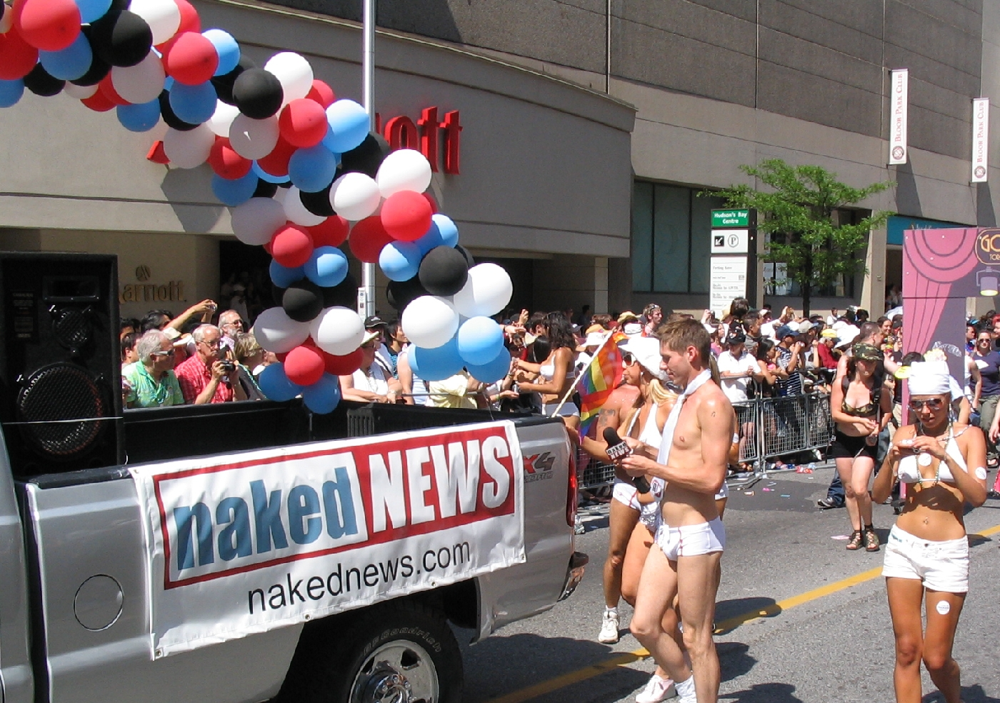 Naked News at Toronto Pride Parade 2007.